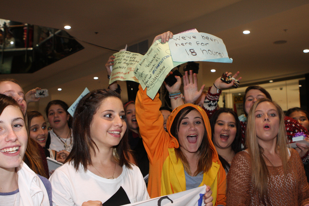 Janoskians appearance at Liverpool, Westfield